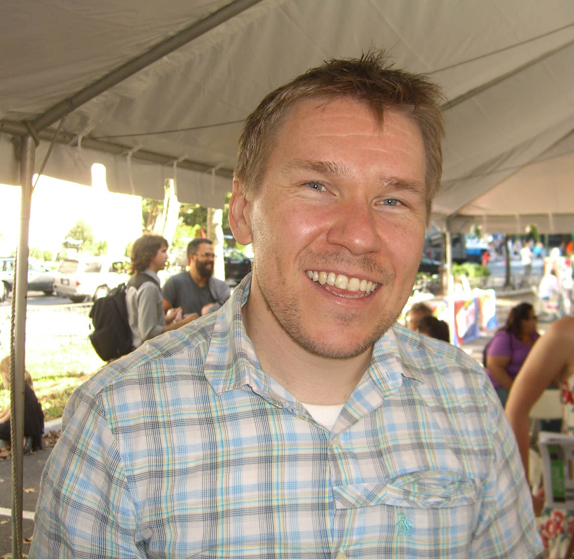 Comic book creator Mike Dawson at the 2009 Brooklyn Book Festival.